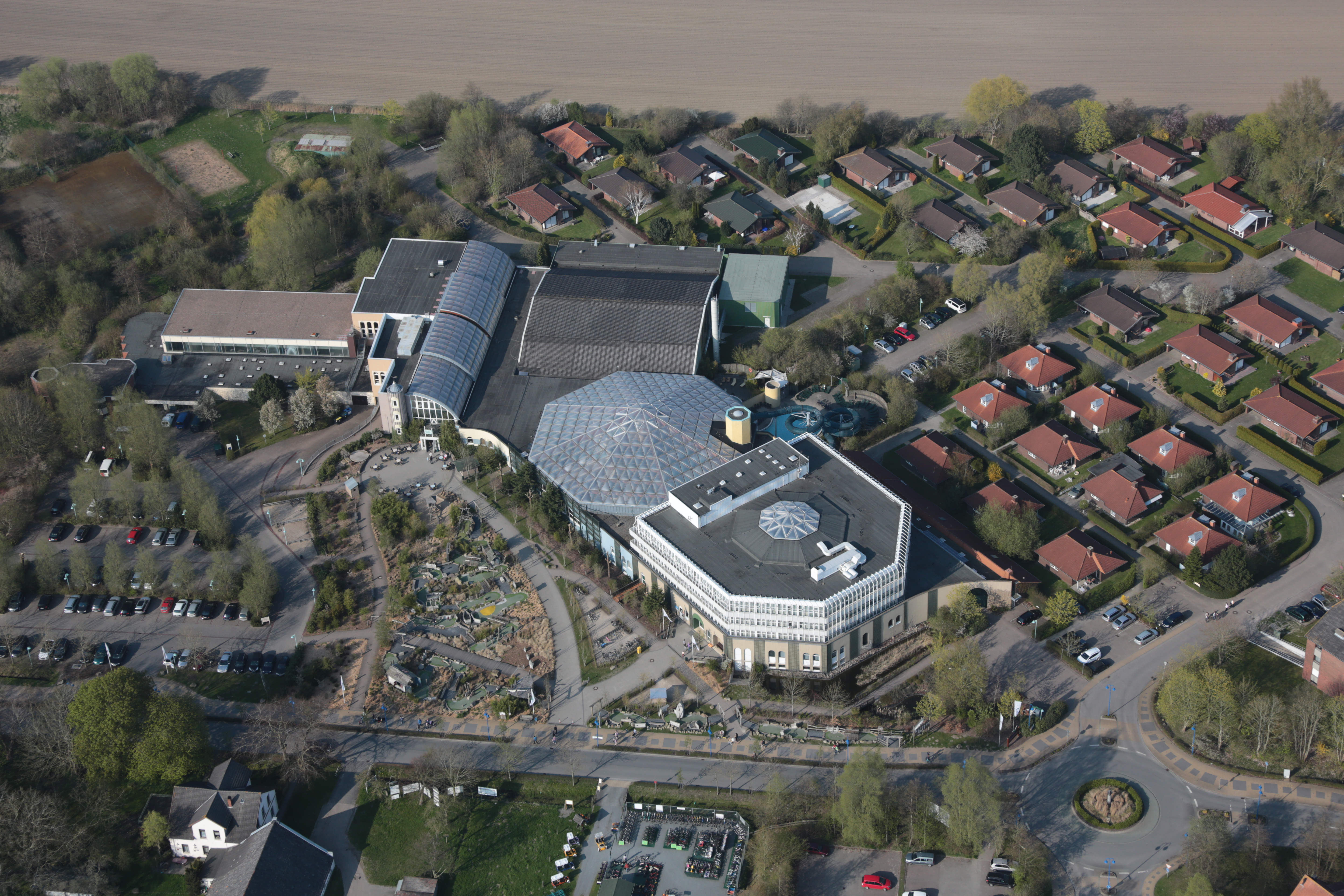 Fotoflug von Nordholz-Spieka nach Oldenburg und Papenburg This photo was taken by Alchemist-hp. If you use one of my photos, an email (account needed) or a message or direct to: my email account would be greatly appreciated. Please note the license terms. Other licensing terms can get discussed, too. This file is copyrighted and has been released under a license which is incompatible with Facebook's licensing terms. It is not permitted to upload this file to Facebook.